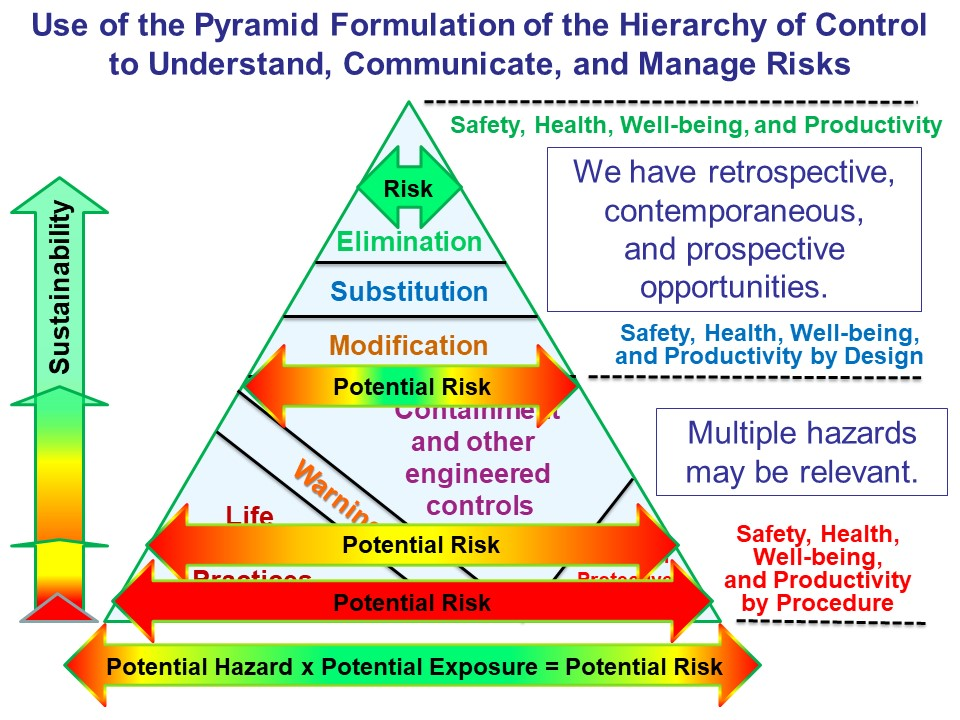 The pyramid formulation of the interrelated elements of the hierarchy of control can be used to provide retrospective, contemporaneous, or prospective insights about the sustainability and levels of risks associated with work activities that involve different combinations of hazards, exposures, controls, and resulting risks. For example, elimination of a hazard is considered to be a highly sustainable strategy, and if a hazard was or is thought to have been eliminated from a process, then initial evaluations can focus on confirmation of material inventories and process knowledge. Similarly, control situations that rely heavily on engineered controls, warnings, work practices, or use of PPE are less sustainable and involve greater risks, and risk management evaluations can focus on confirmation of whether those controls were actually in place and properly applied.